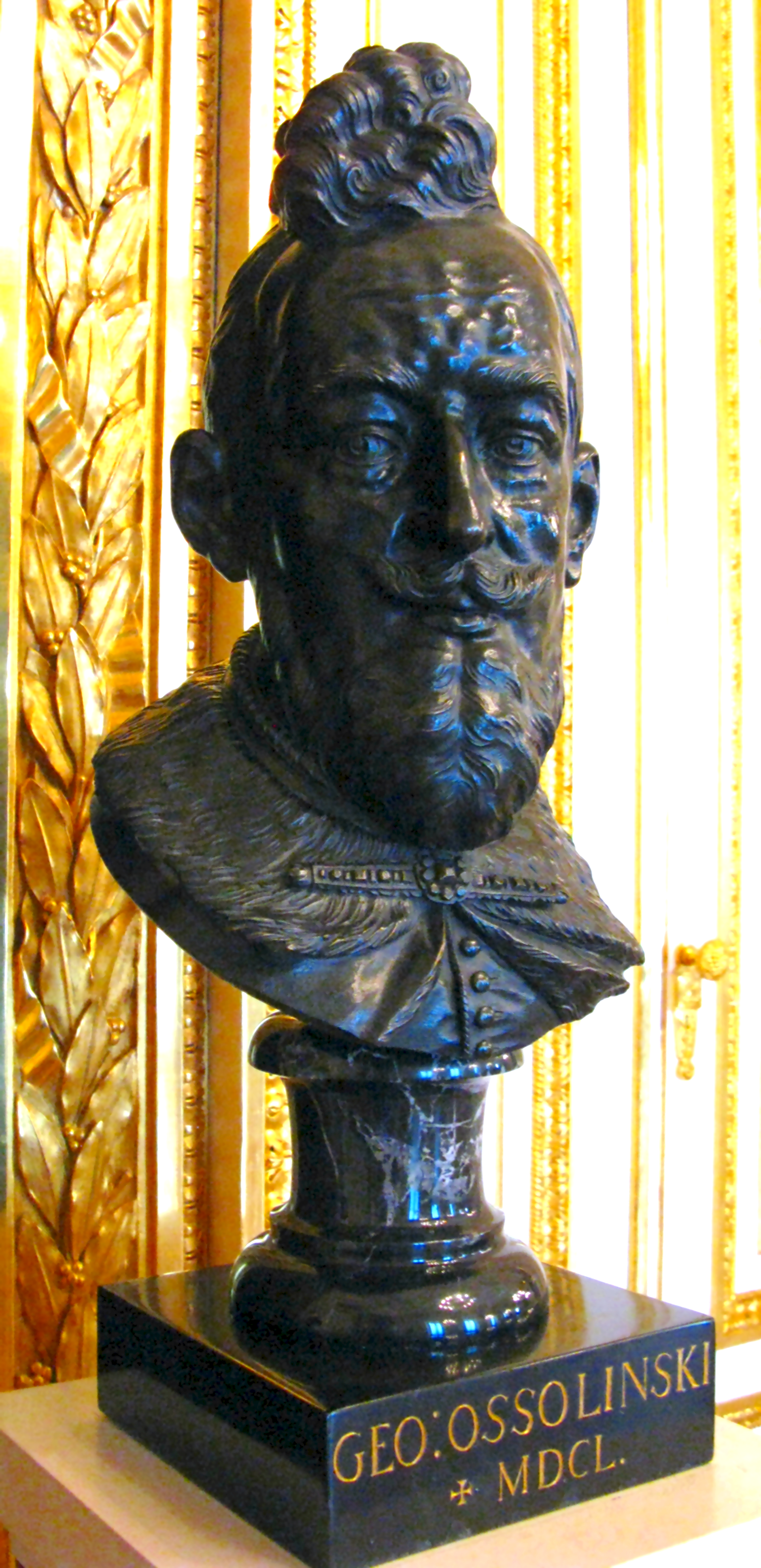 Jerzy Ossoliński by André Le Brun